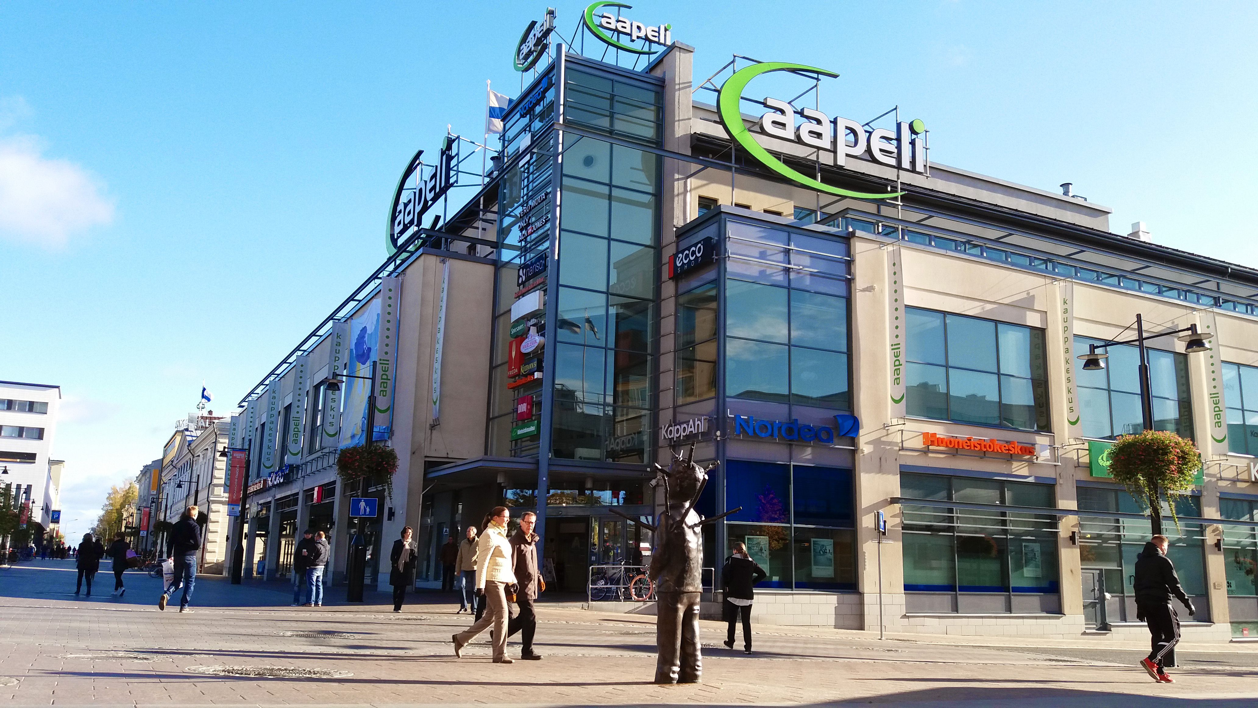 Aapeli shopping mall in Kuopio.